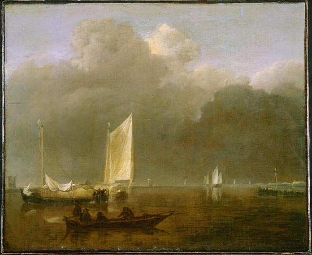 Calm at the Mouth of a River